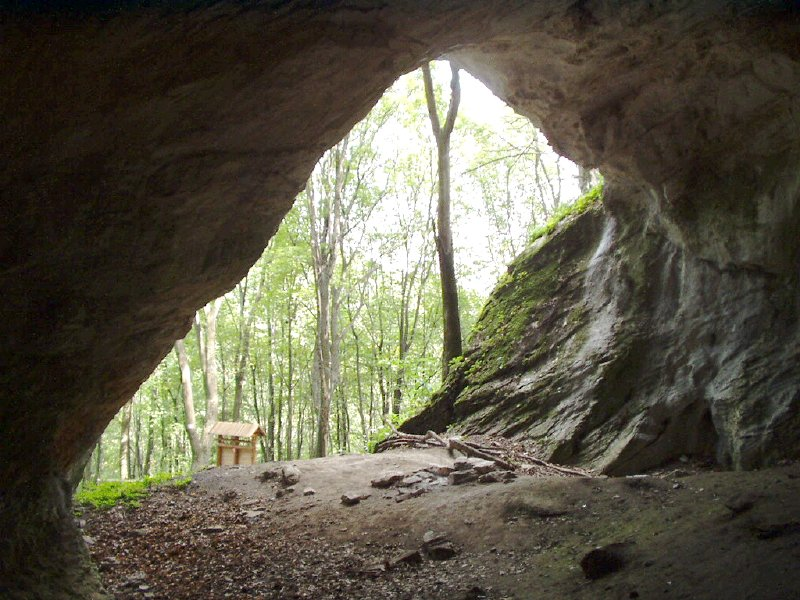 Balla Cave, view from the cave. Hungary, Bükk Mountains, Répáshuta